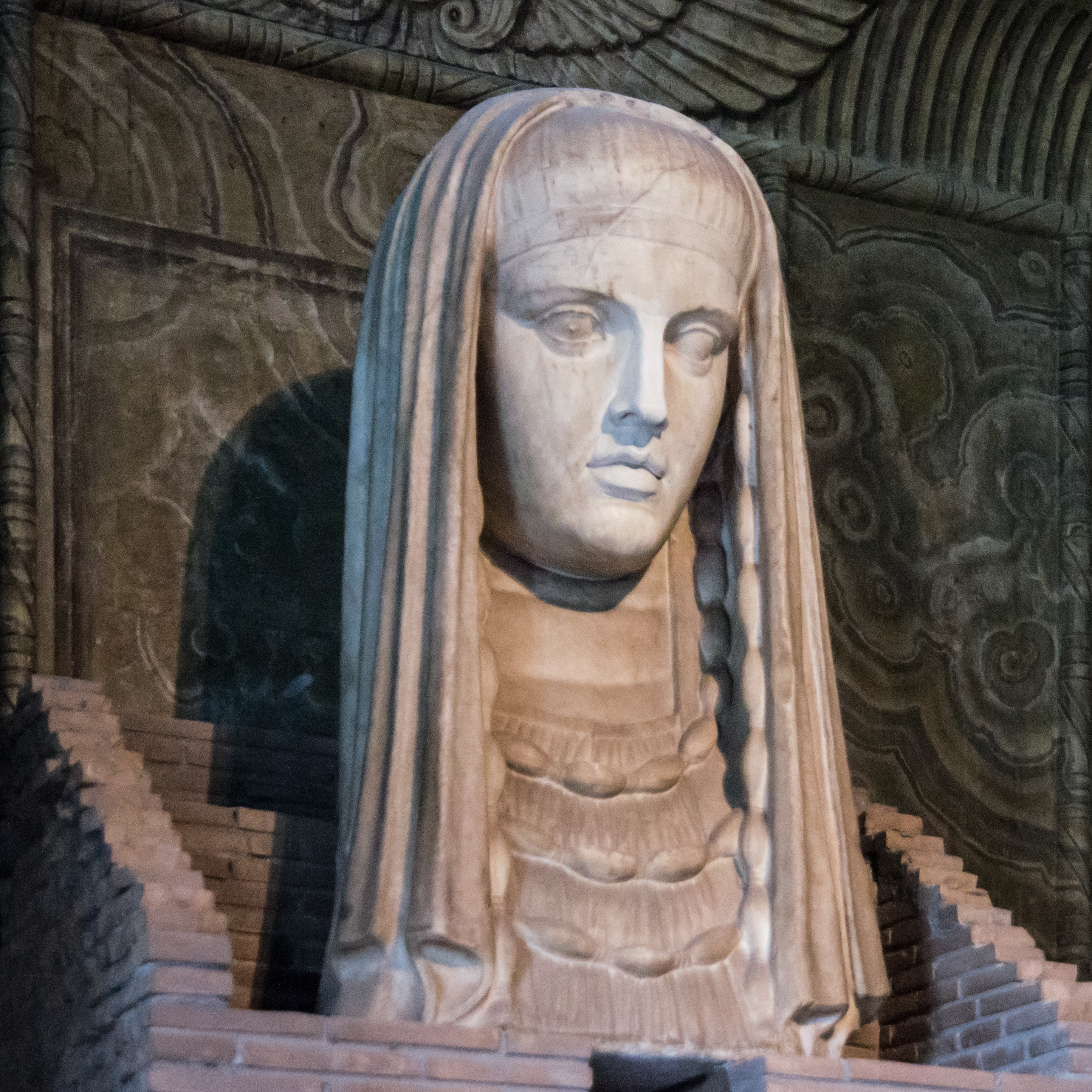 The goddess Isis-Sothis-Demeter. This white marble monumental bust is 1.2 m high. It is on display in the Gregorian Egyptian Museum; Room III as part of a display of the Serapeum and the Canopus Of Hadrian's villa. Vatican Museums Native nameMusei VaticaniLocationVatican CityCoordinates41° 54′ 23″ N, 12° 27′ 16″ E Established1506Web page control : Q182955 VIAF: 141443926 ISNI: 0000 0001 0807 3165 LCCN: n81003002 GND: 235092-0 SUDOC: 032013795 WorldCat institution QS:P195,Q182955